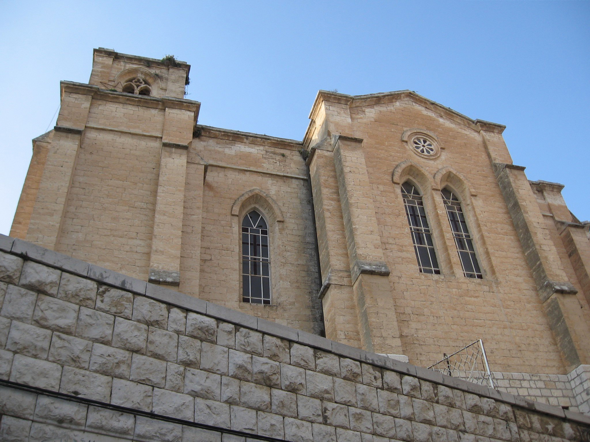 Christ Church in Nazareth, built 1871 with plans from Ferdinand Stadler